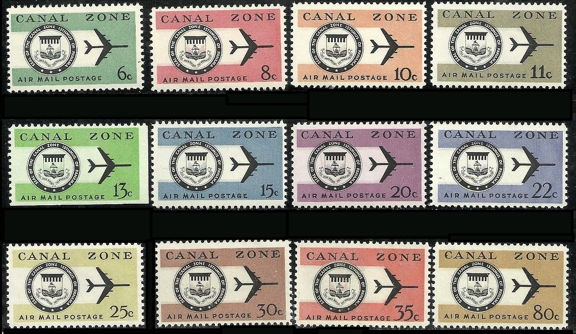 Canal Zone Air Mails, 1965 Issue, lot of 12 stamps